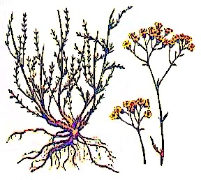 Achillea glaberrima — an endangered plant species endemic to Ukraine